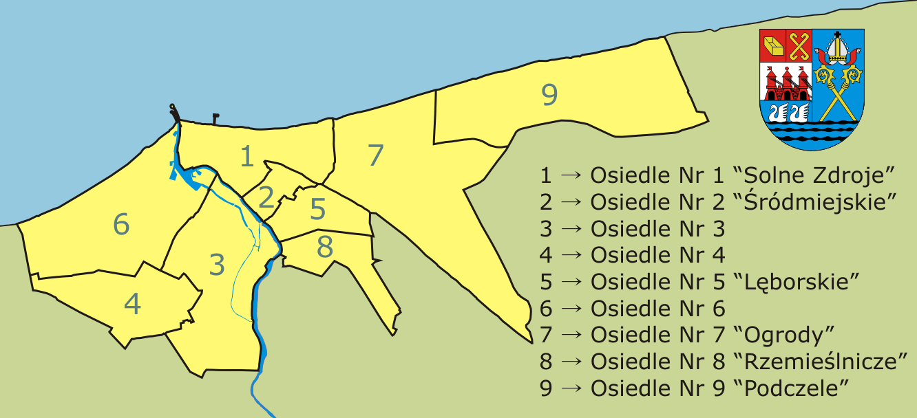 Administrative division city of Kołobrzeg